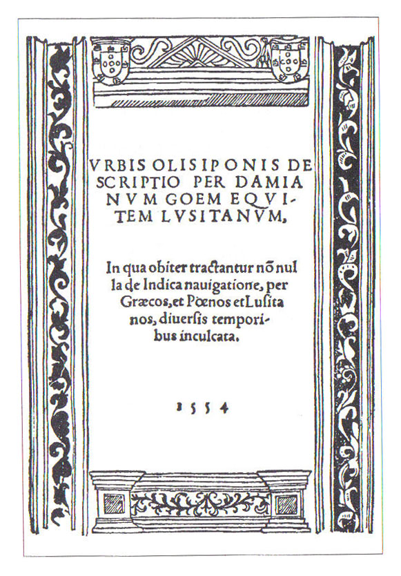 Title page of Damiào de Góis, Urbis Olisiponis descriptio (Évora, 1554).